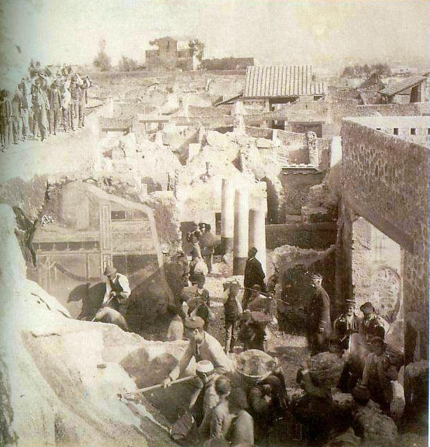 Excavations of a house in Pompeii at the End of the 19th Century.